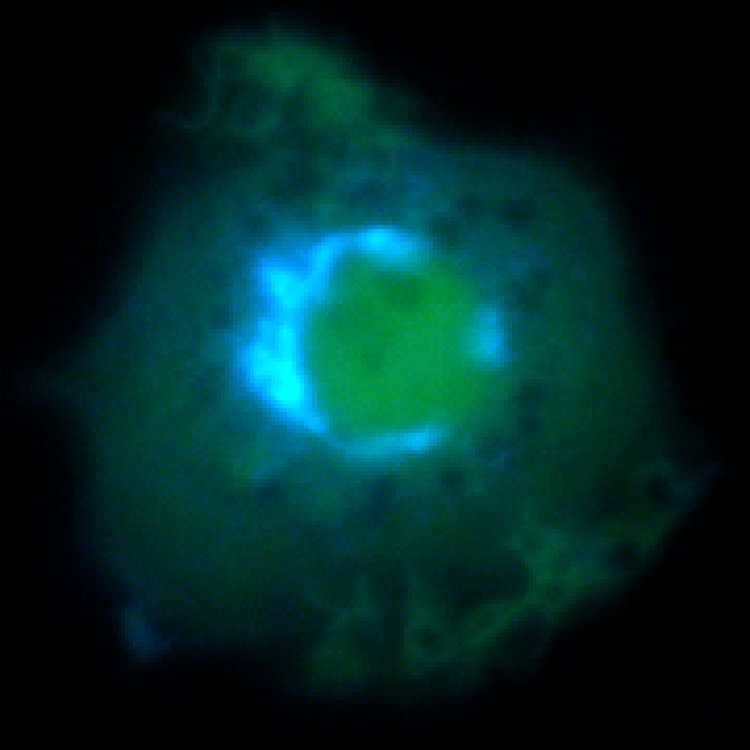 Fluorescently-labeled guanosine 5'-triphosphate hydrolase ARF reveals the protein's localization in the Golgi apparatus of a living macrophage. FRET studies revealed ARF activation in the Golgi and in the formation of phagosomes.